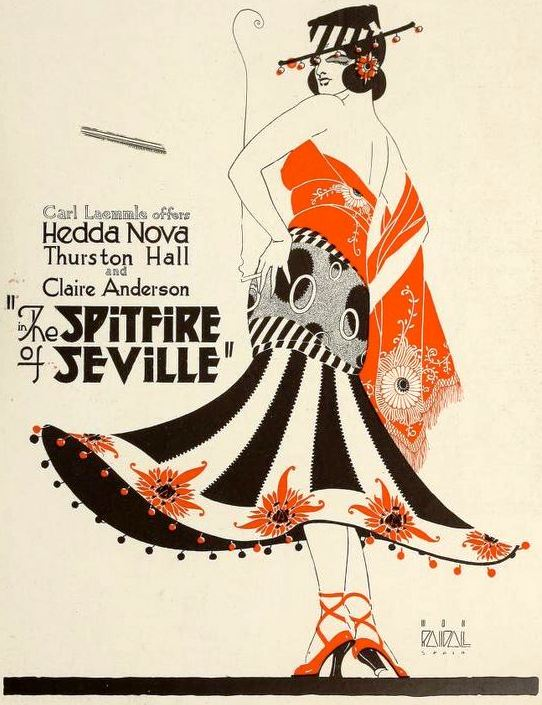 Ad for the American film The Spitfire of Seville (1919) starring Hedda Nova, on page 720 of the July 19, 1919 Motion Picture News.